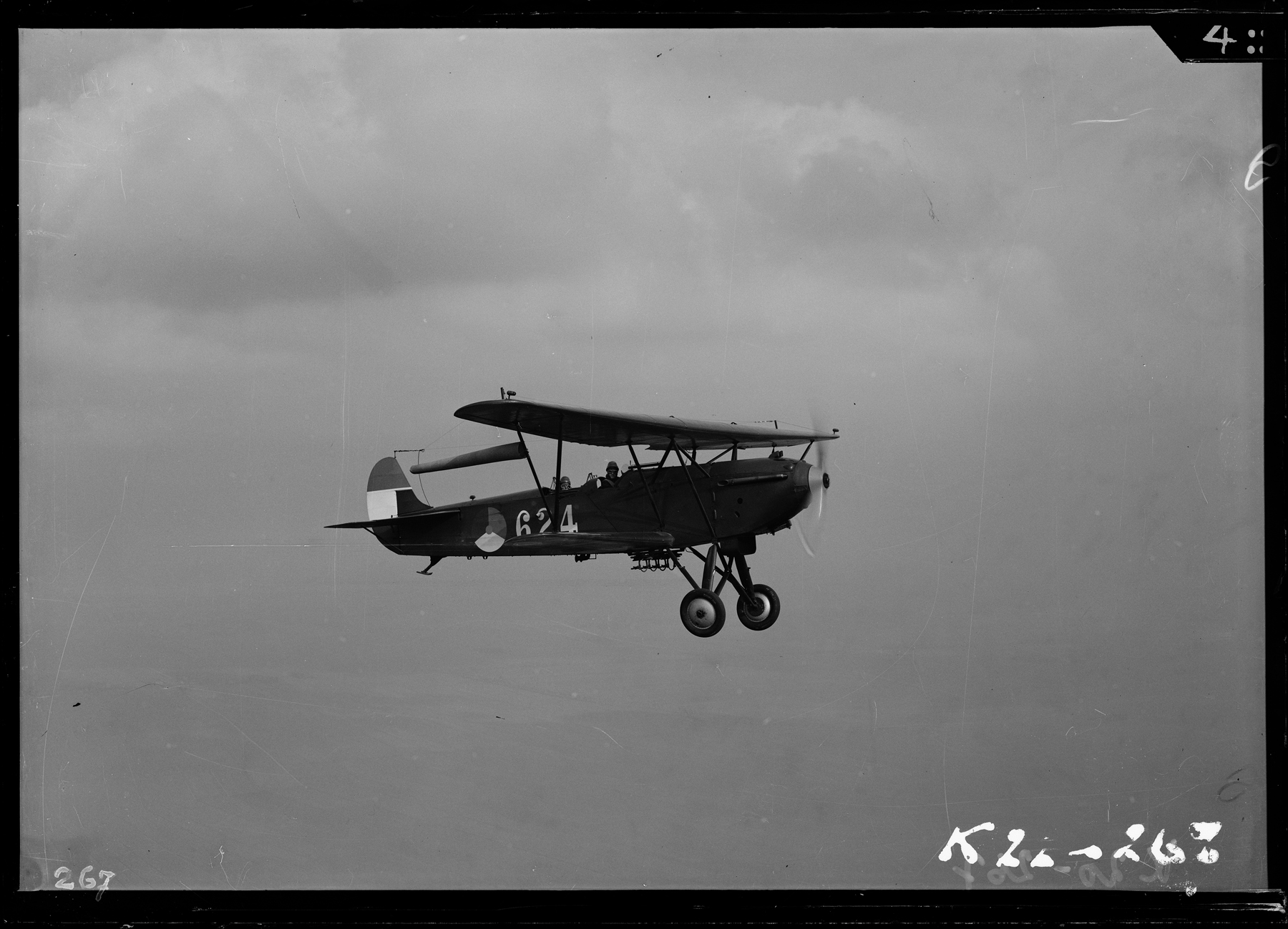 More images from the collection of the Nederlands Instituut voor Militaire Historie on Flickr are to be found at: Voor meer beelden uit de collectie van het Nederlands Instituut voor Militaire Historie kijk op